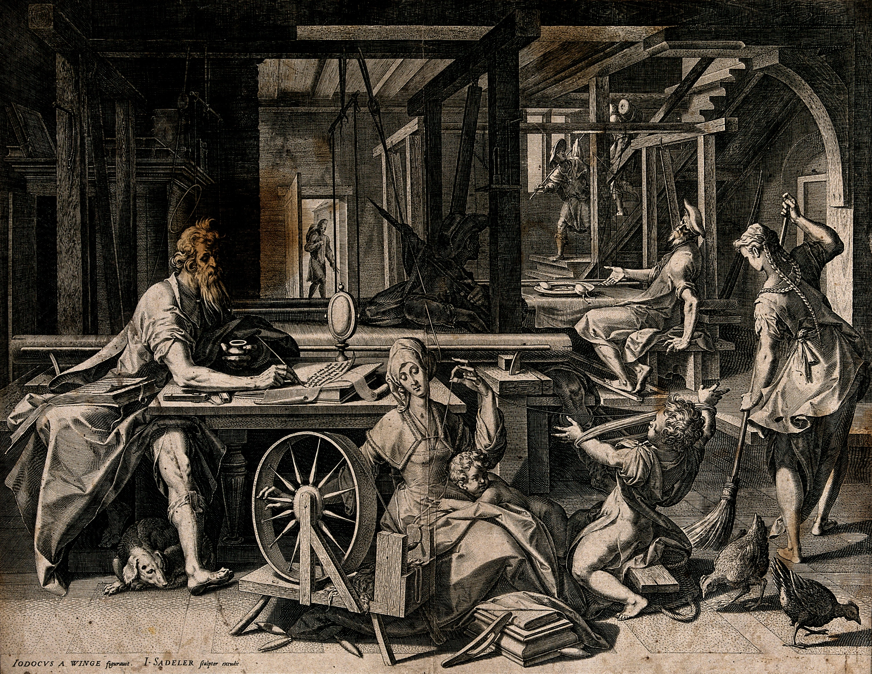 St. Paul is staying in the house of Aquila and his wife Priscilla, the family are making tents and St. Paul is writing. Engraving by J. Sadeler after Jodocus Winghe. Iconographic Collections